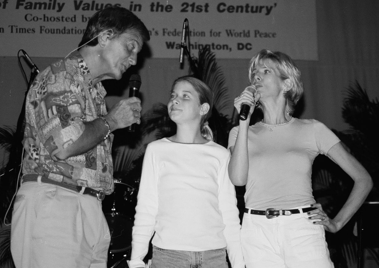 Wash D.C. August 1, 1996 ... duet for a fan